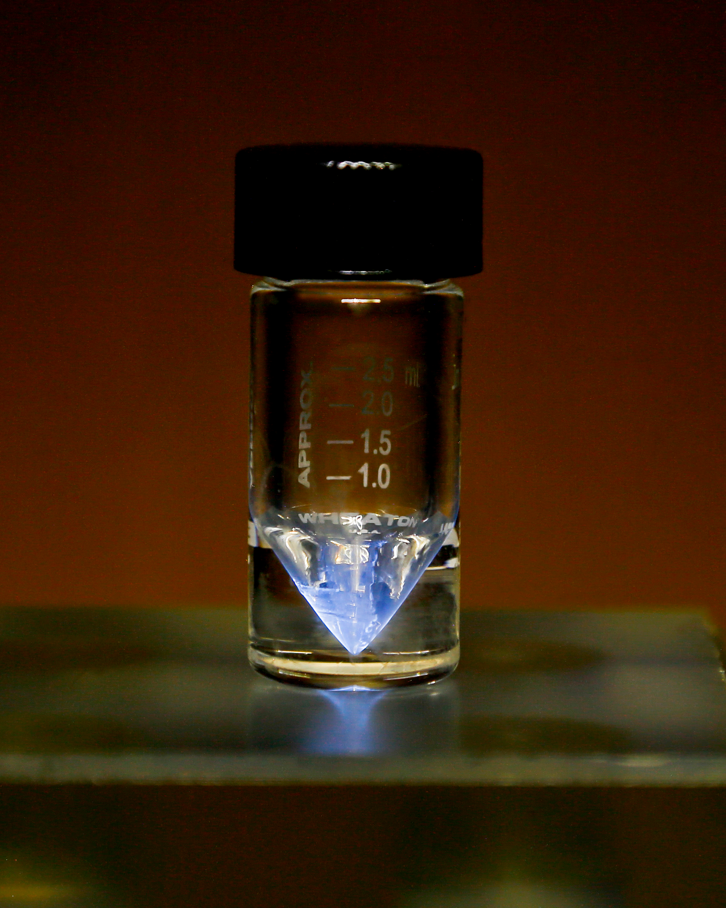 Actinium-225 medical radioisotope held in a v-vial at ORNL. Note the blue glow that originates from the ionization of surrounding air by alpha particles.